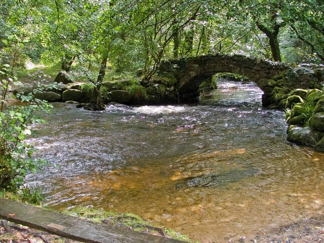 The ford at Hisley Bridge Vehicles are not permitted to cross the ancient pack horse bridge over the River Bovey and to enforce this a large stone block has been cemented into the western end. However, there is a ford just upstream.